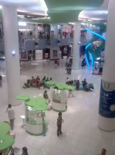 Central Court of VivoCity: Level 1